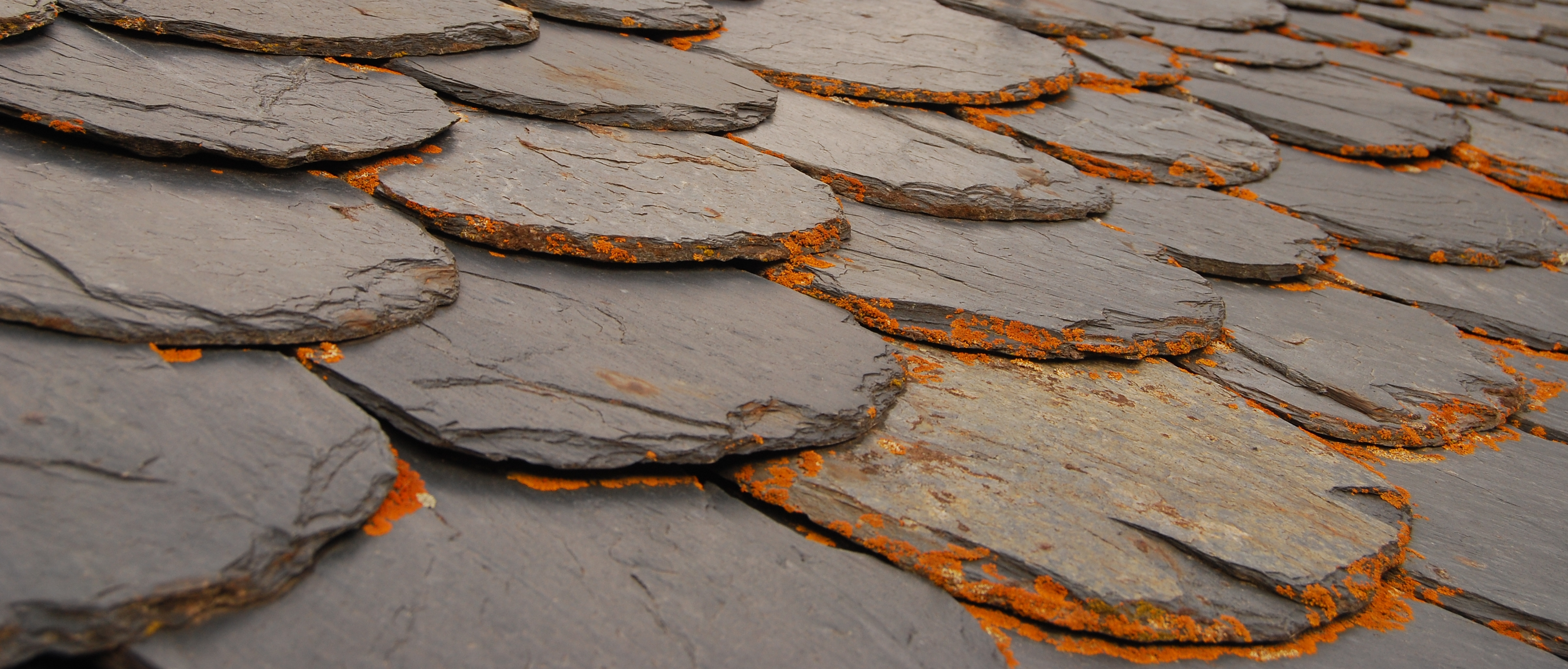 Slate roof in Andorra.